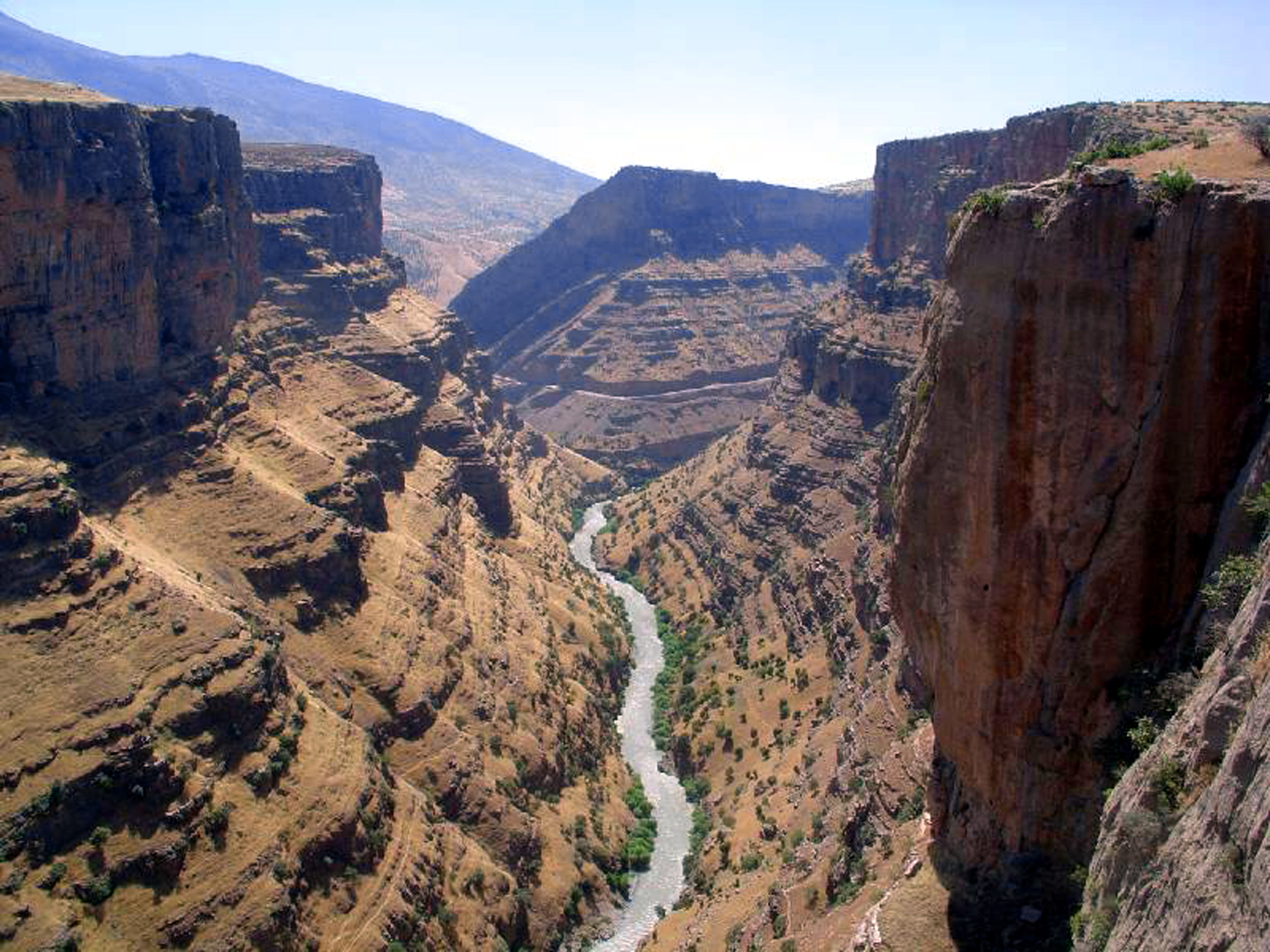 US Army Corps of Engineers (USACE) photograph by ACoE photographer Jim Gordon. Splendid canyon, Kurdistan, northern Iraq. Culturally and historically Kurdistan has been part of what is known as Greater Iran (or historic Persia). In addition to Kurds who comprise the majority of the population of the region there are also communities of Arab, Armenian, Assyrian, Azeri, Jewish, Ossetian, Persian, and Turkic people traditionally scattered throughout the region. Most of its inhabitants are Muslim, but there are also significant numbers of other religious sects such as Yazidi, Zoroastrian, Yarsan, Alevi, Christian, Jewish, Sarayi, Bajwan, Shabak, and Sarli.